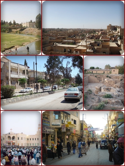 Collage of the city of Al Hasakah in Syria.